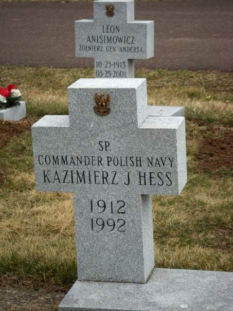 Pic 17-022-004